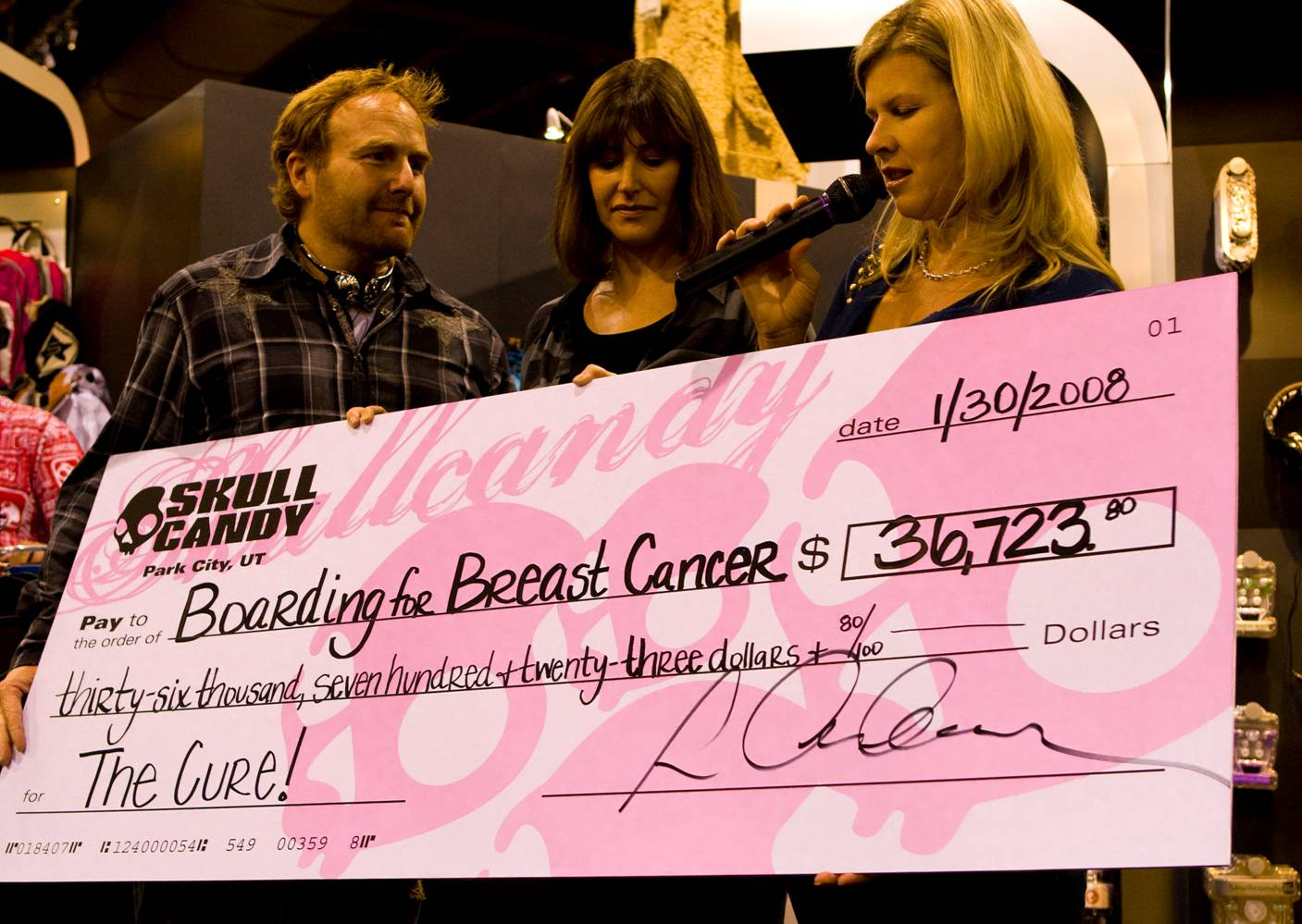 Skull Candy Donation